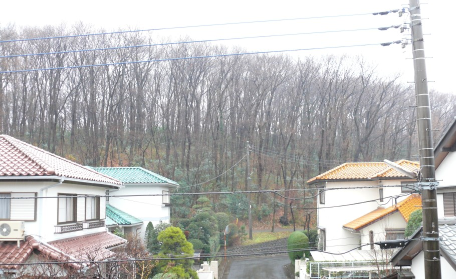 January, 2007: Created by Bryan MacKinnon for use in Wikipedia. This shows the Northern edge of Higashikokuyama raising above Matsugaoka in Tokorozawa during a cold and rainy winter day.